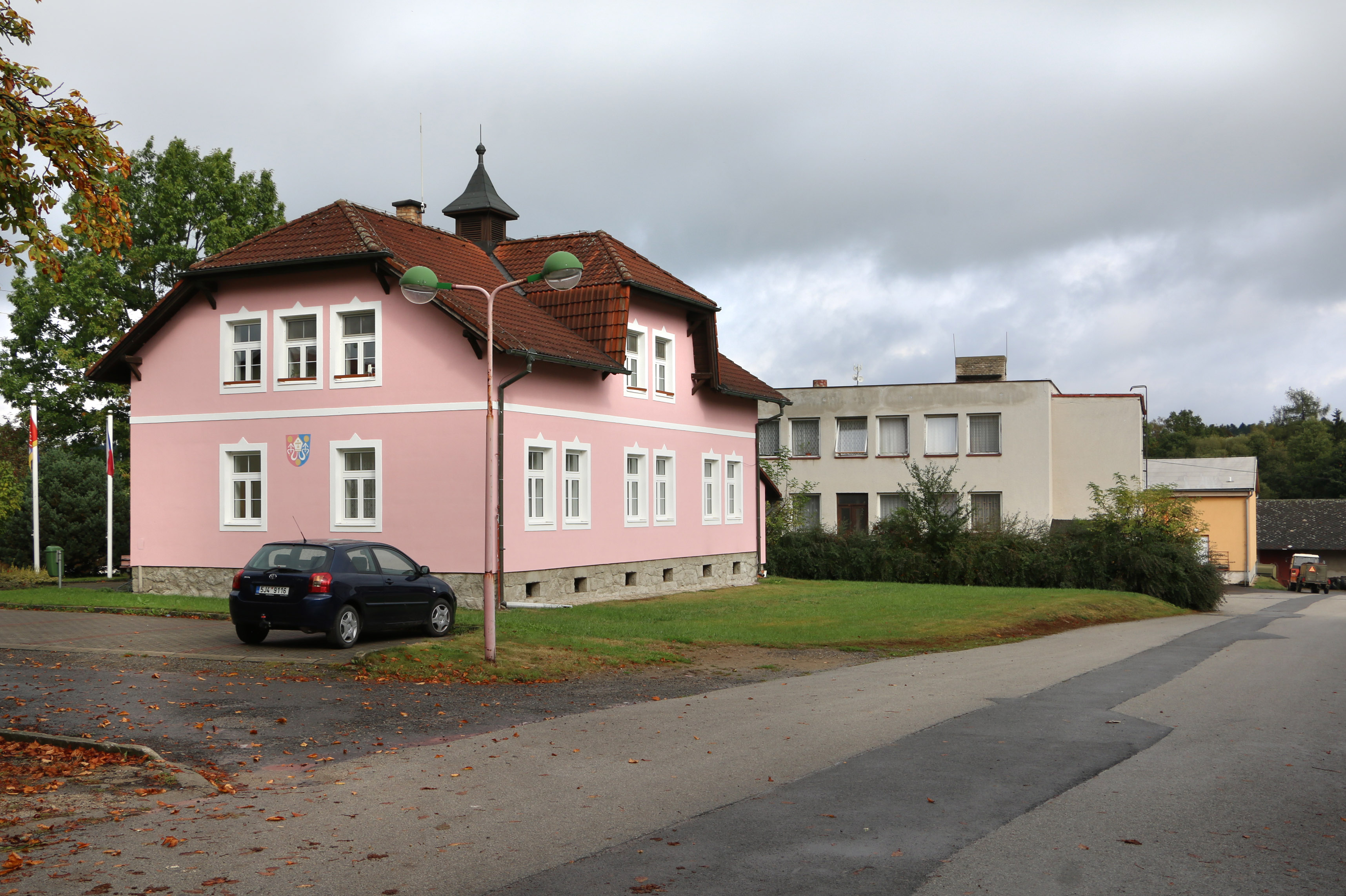 Municipal office in Častrov, Czech Republic.